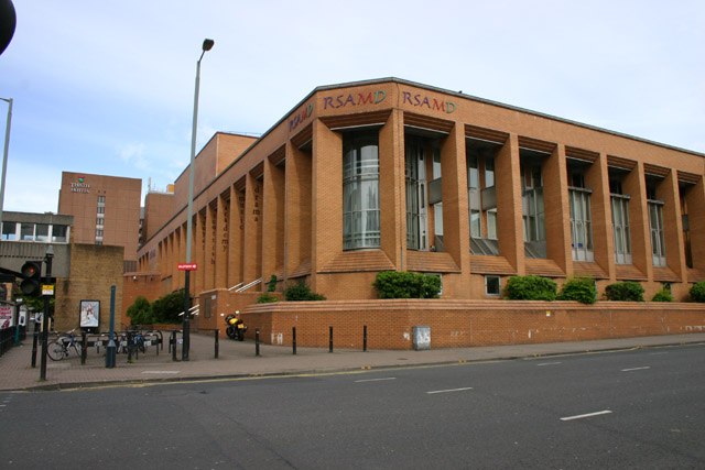 Royal Scottish Academy of Music and Drama